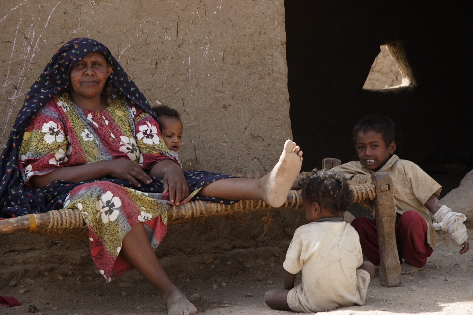 Manasir woman with horizontal tribal marks on her cheeks (Fatnah from Sherari, Atoyah) (c) GFDL David Haberlah (Homepage of David Haberlah, )